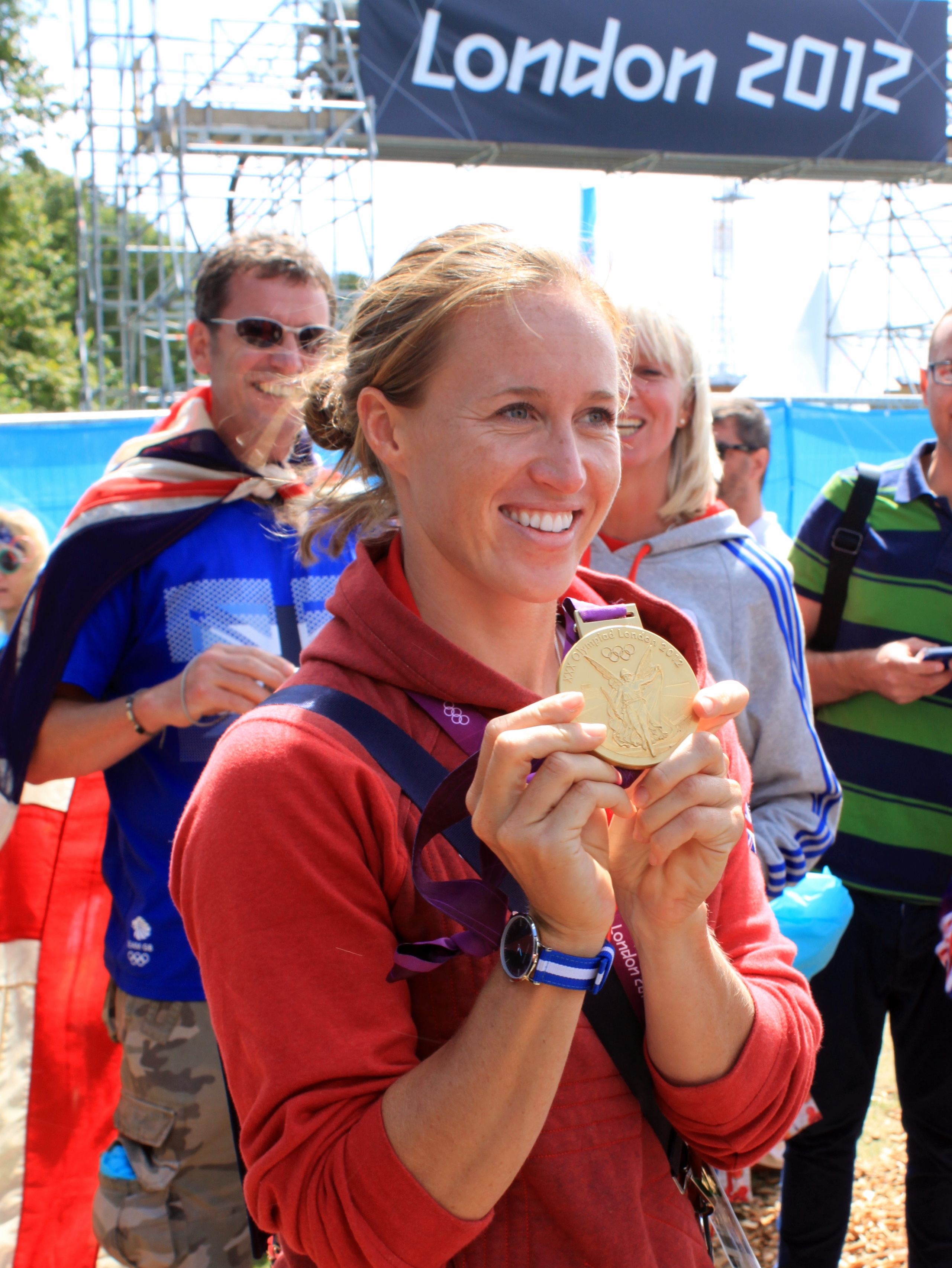 A photo of Olympic Gold medallist Helen Glover showing her medal to the crowd.